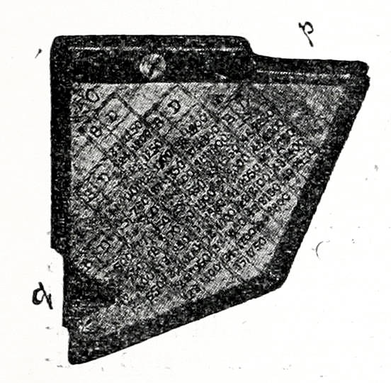 A rangefinder is a device that measures distance from the observer to a target, in a process called ranging.